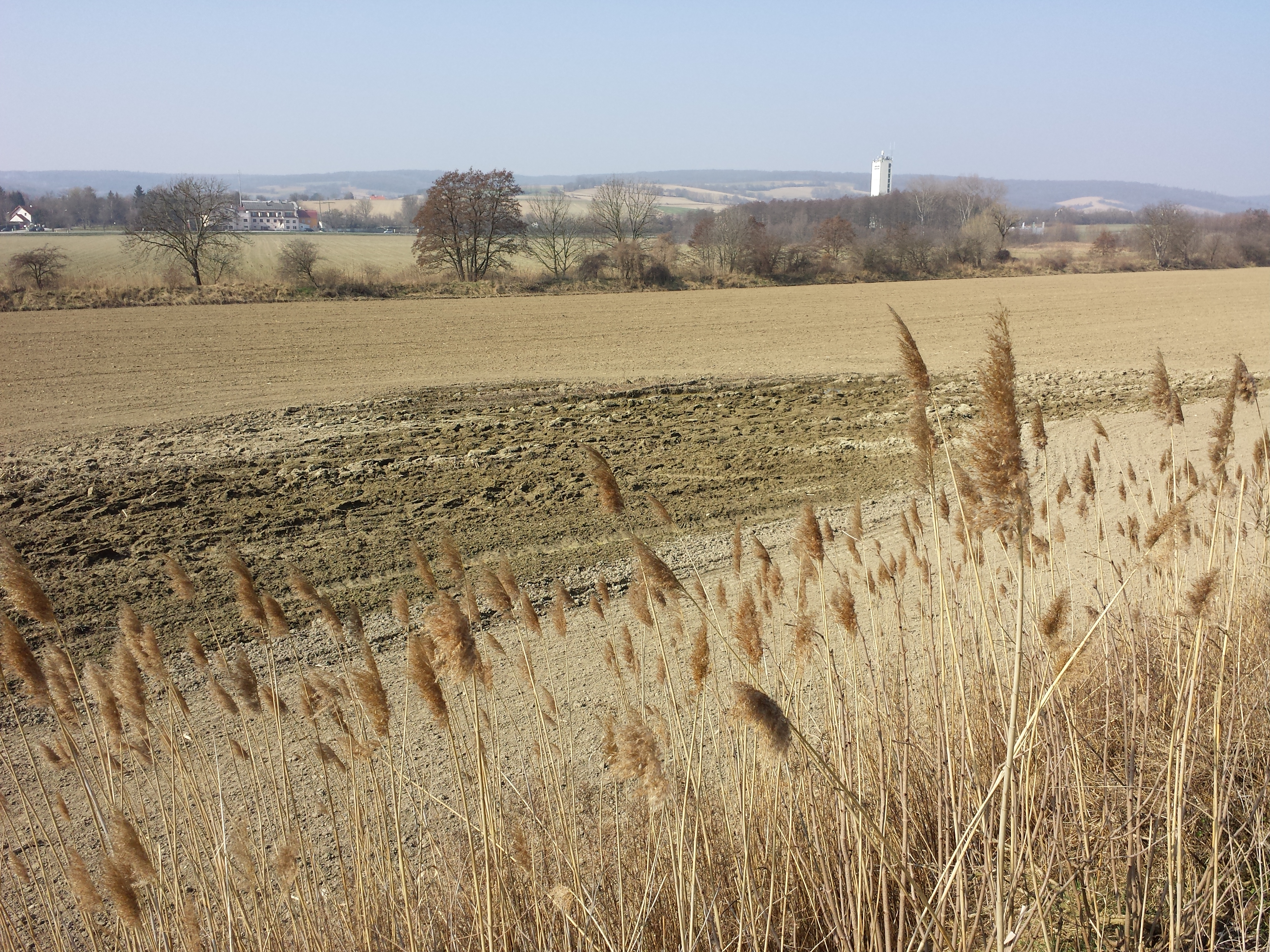 Wet areas within fields and reed (here near Kronberg, district Mistelbach, Lower Austria) indicate former wetlands